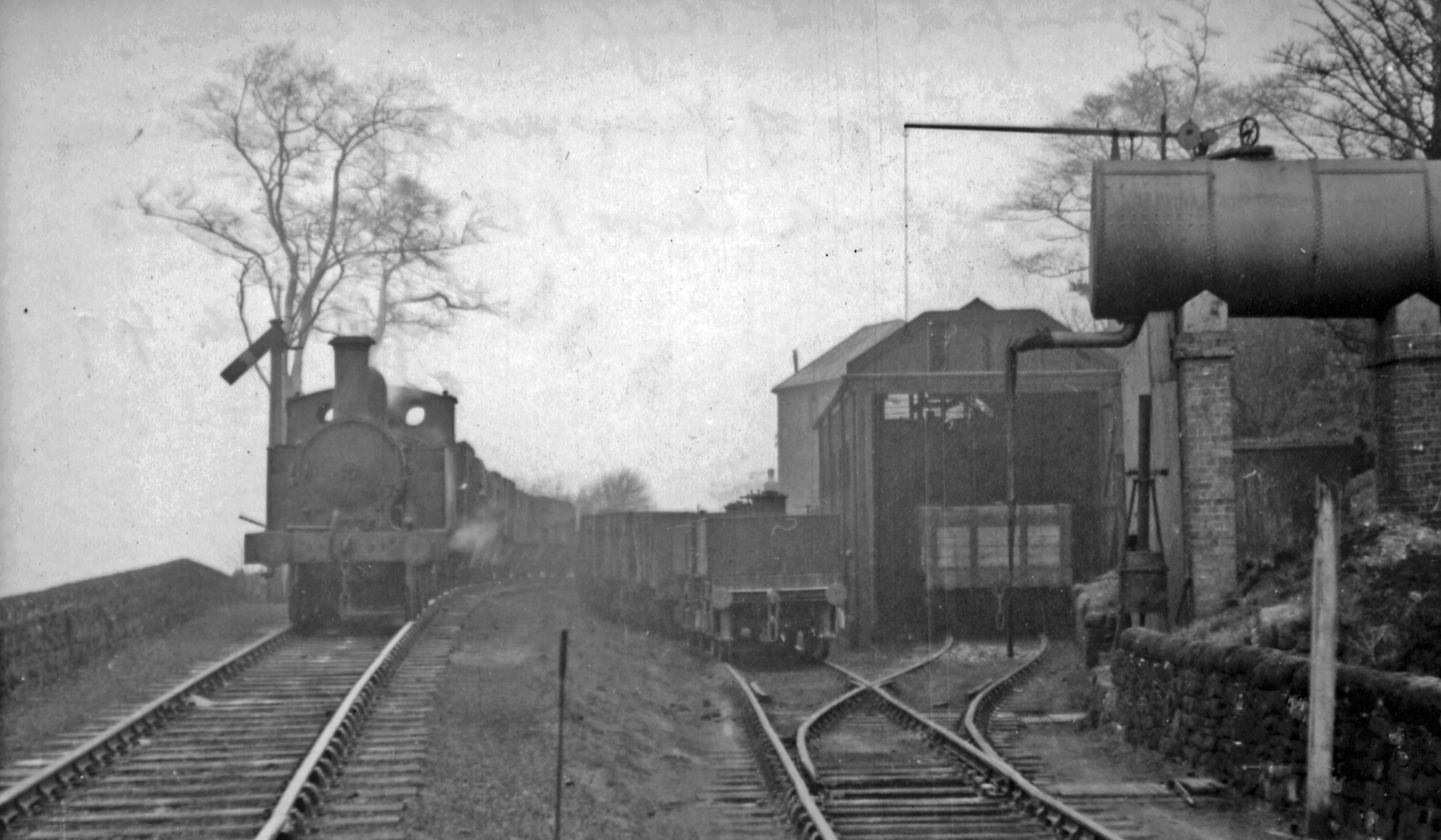 Cromford & High Peak Railway: engine-shed at top of Sheep Pasture Incline, 1949View east, a mineral train has just ascended from Cromford Wharf (High Peak Junction), headed by ex-LNW (1877) Webb class 1P 2-4-0T No. 26428, withdrawn as BR No. 58092in 3/52. The course of the former C&HPR is nowadays the High Peak Trail.